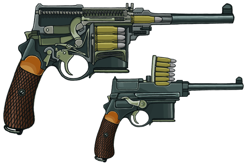 Drawing of Mannlicher m1896(03) loading and function